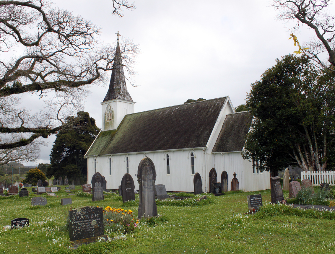 Historic St John the Baptist Church at Waimate North, New Zealand. Some of the combatants who died at the Battle Of Ohaeawai in 1845 are buried in this churchyard.